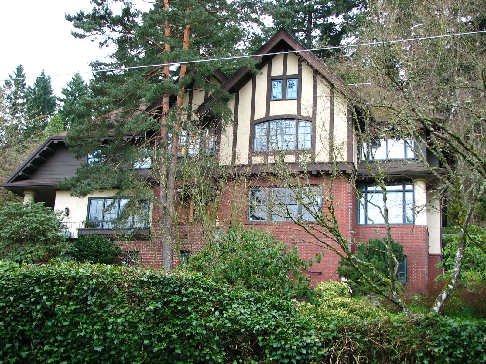 The Alexander McDougall House (built 1911), located at 3814 Northwest Thurman Street in Portland, Oregon, United States, is listed on the US National Register of Historic Places (NRHP).NRHP reference number 99000359